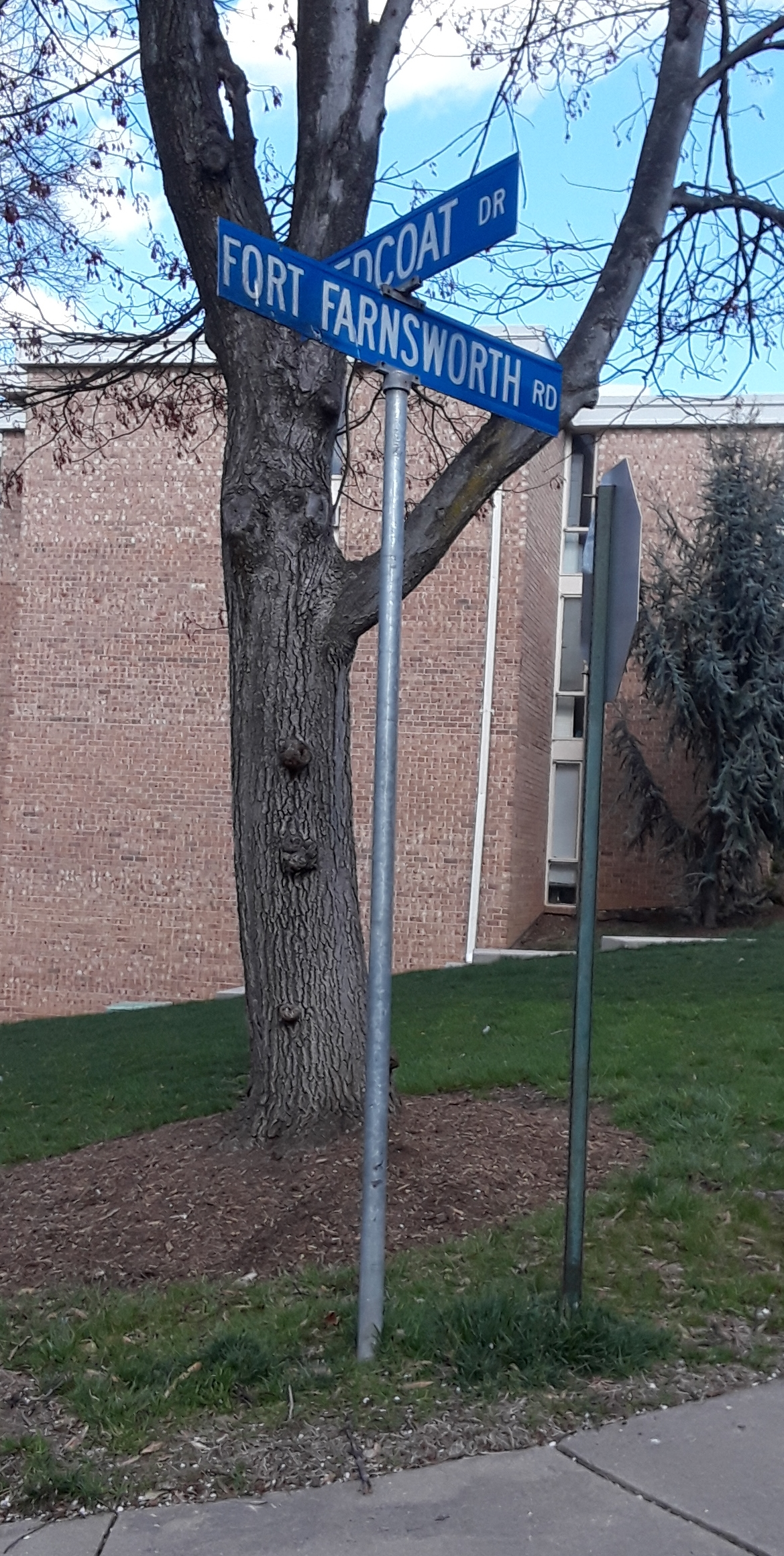 Fort Farnsworth Rd. in Huntington, Virginia; the name memorializes the Civil War fort once located in the vicinity